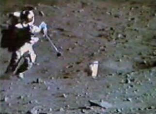 Astronaut Charles Duke "juggling" (trying to catch) a rock sample at Buster crater, north of Spook crater during Apollo 16 (EVA 1), on the moon. The sample is to the right of his helmet and above his outstretched hands, and it is sample 62275.